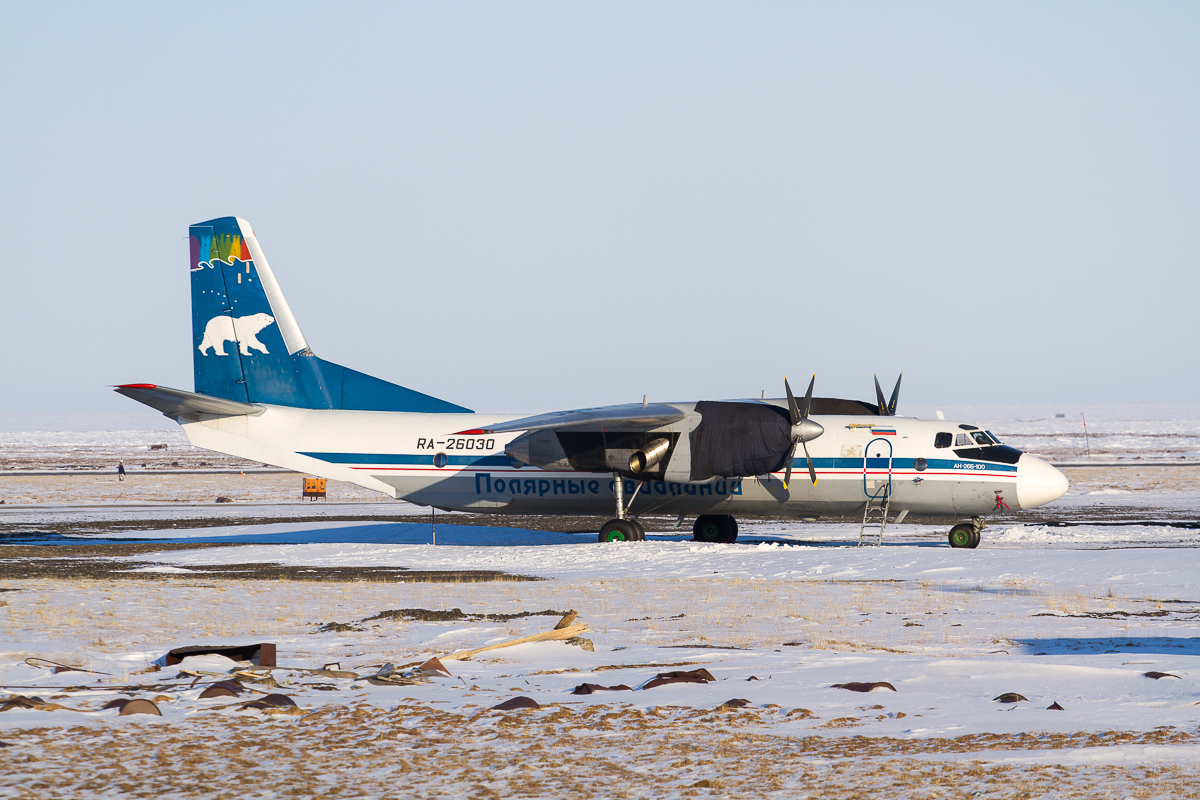 Polar Airlines Antonov An-26B-100 (RA-26030) at Tiksi Airport